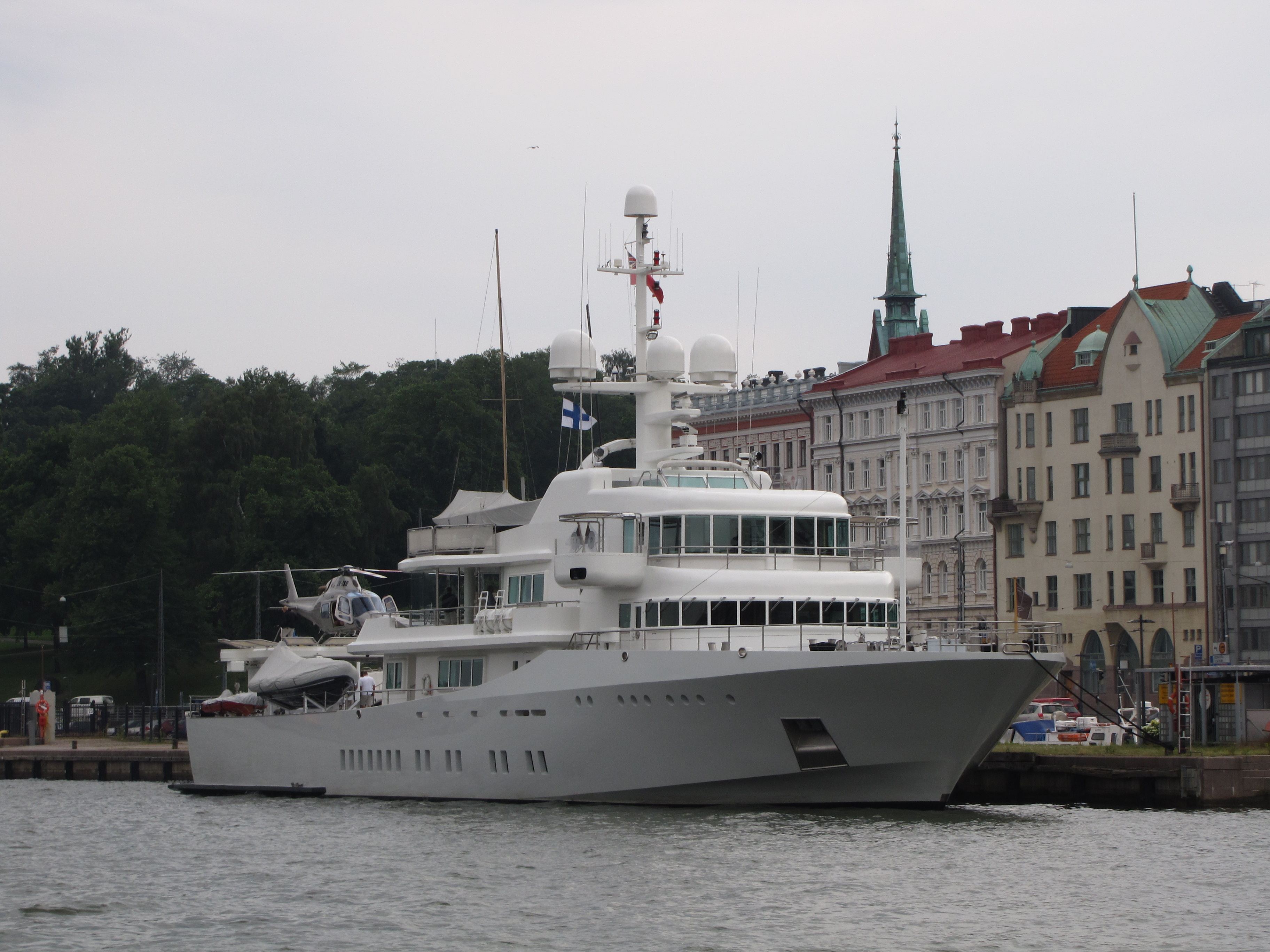 Luxury yacht Senses in Helsinki South Harbour. AgustaWestland AW119 helicopter ZK-ISR on the stern helipad.